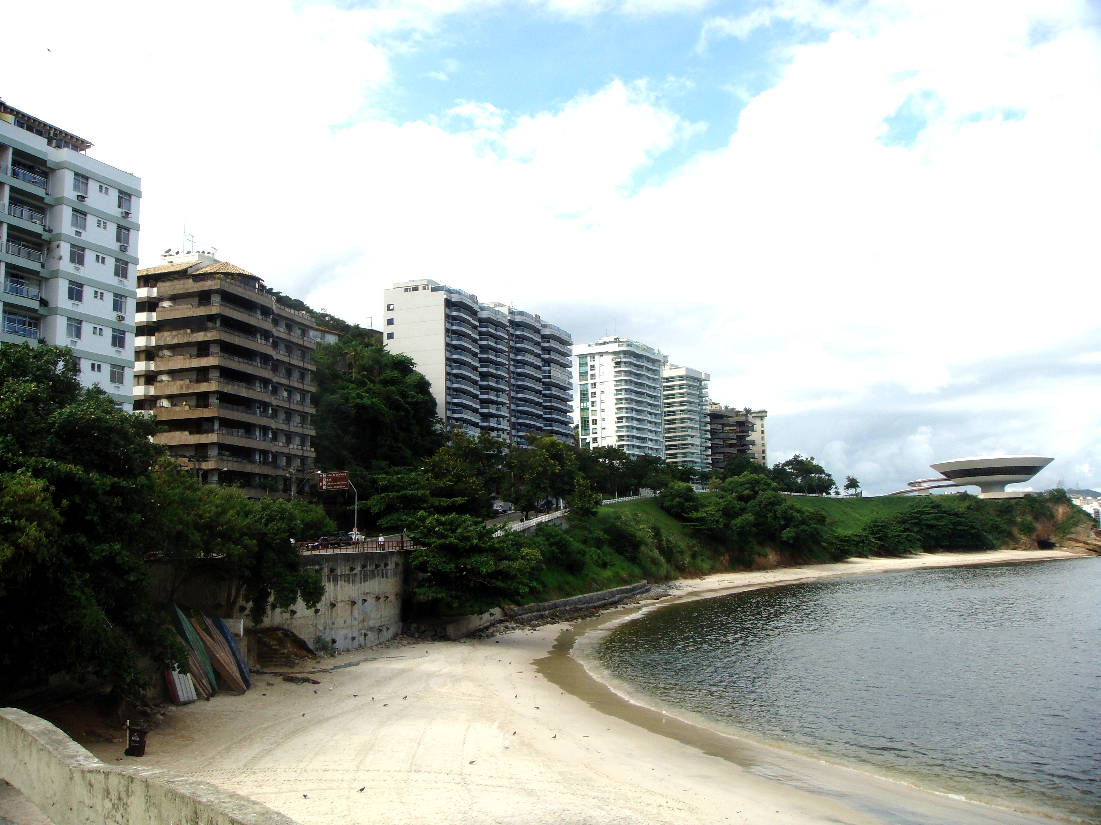 Boa Viagem, bairro de Niterói